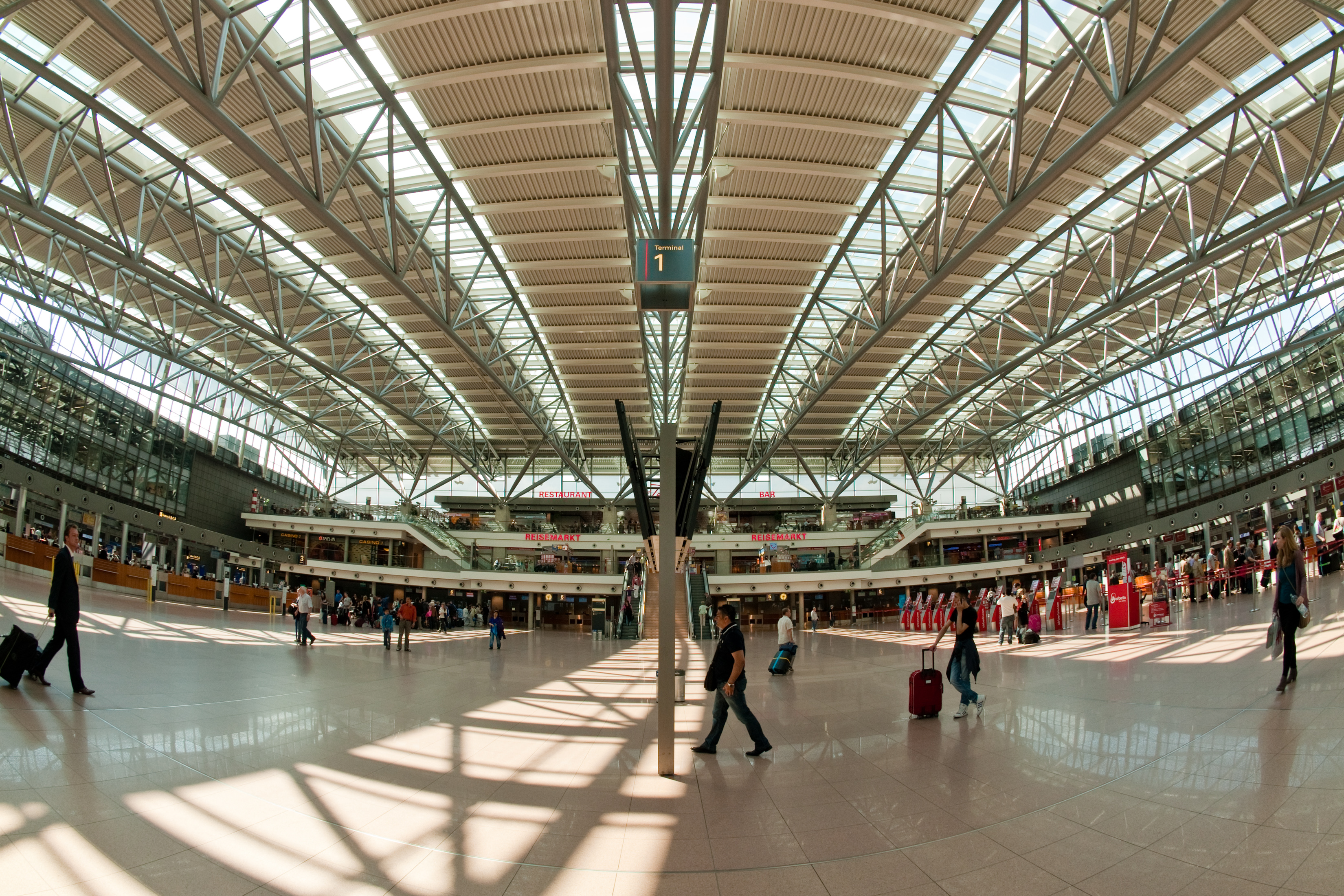 Hamburg Airport Terminal 1